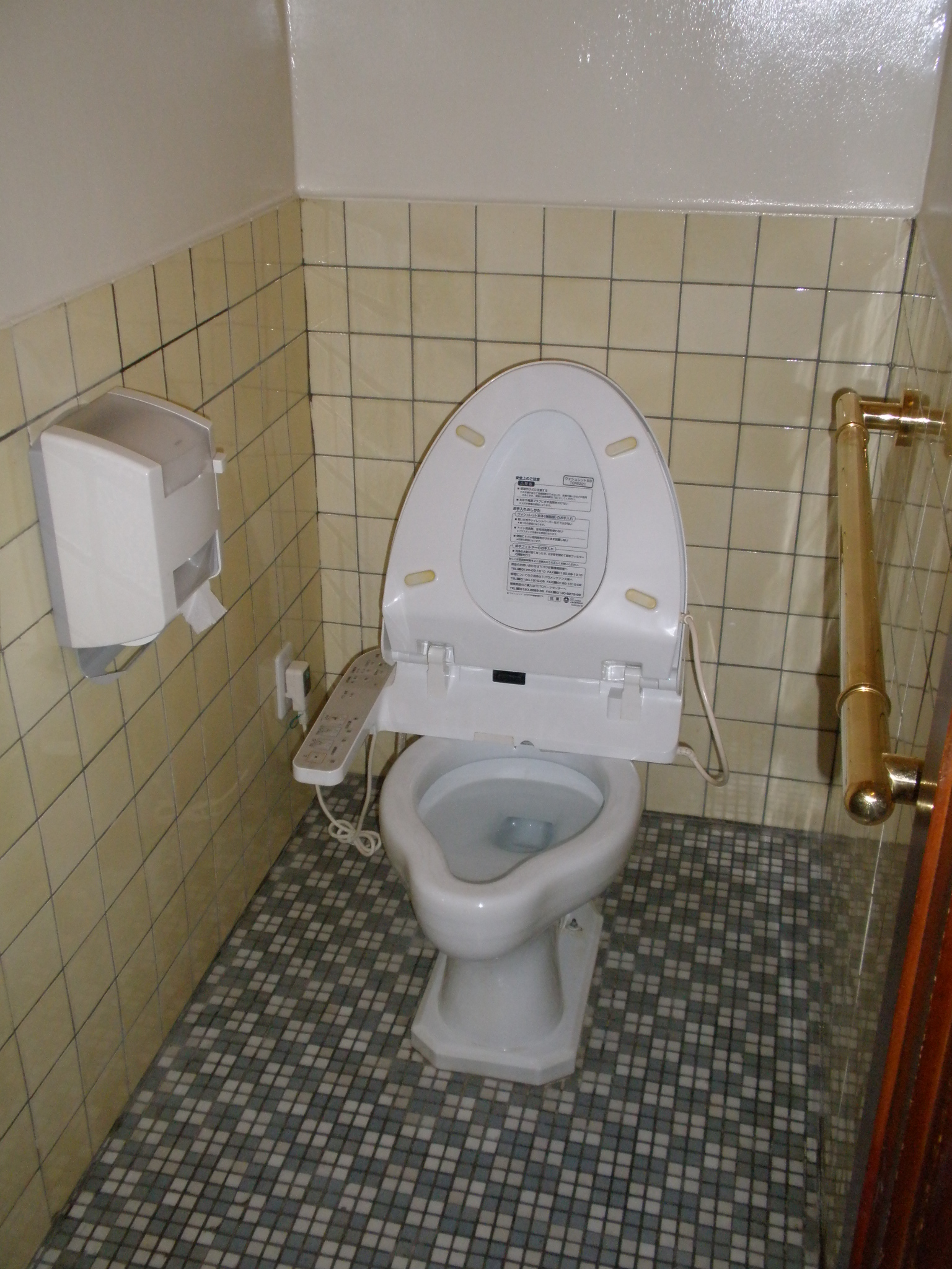 A Japanese toilet at Hakone Fujiya Hotel, dating from the 1930s, with a modern electronic seat added. The toilet bowl was made by Toyotoki, the predecessor of Toto